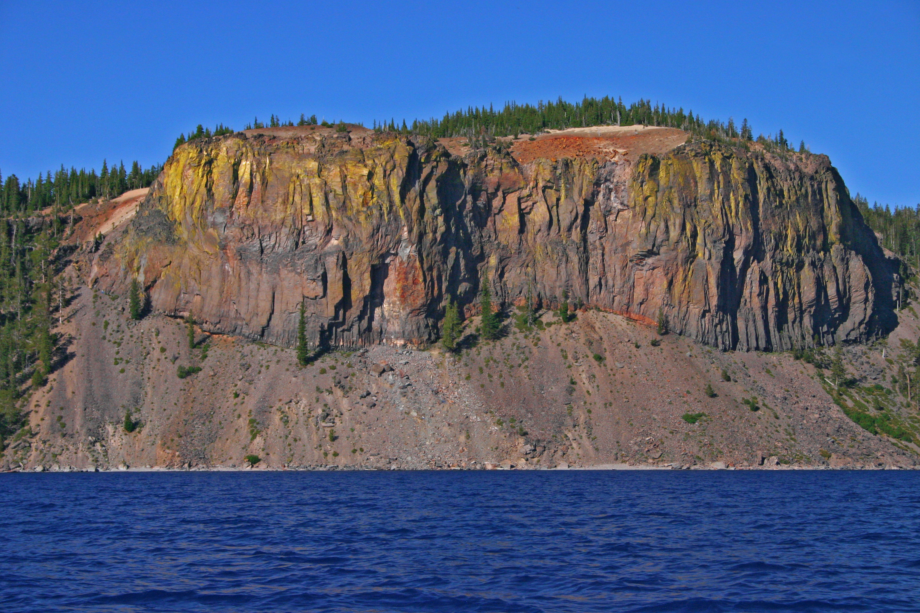 Lichen Colors on the rim of Crater Lake in Oregon, USA. The rock that forms this East Palisade cliff is the Roundtop Andesite lava flow. It has been dated at 159,000±13,000 years old. (Reference: Bacon, C.R. (2008) Geologic Map of Mount Mazama and Crater Lake Caldera, Oregon, U.S. Geological Survey Scientific Investigations Map 2832 Version 1.0, photo 20 - The Palisades). Some parts of the lava flow display columnar jointing.